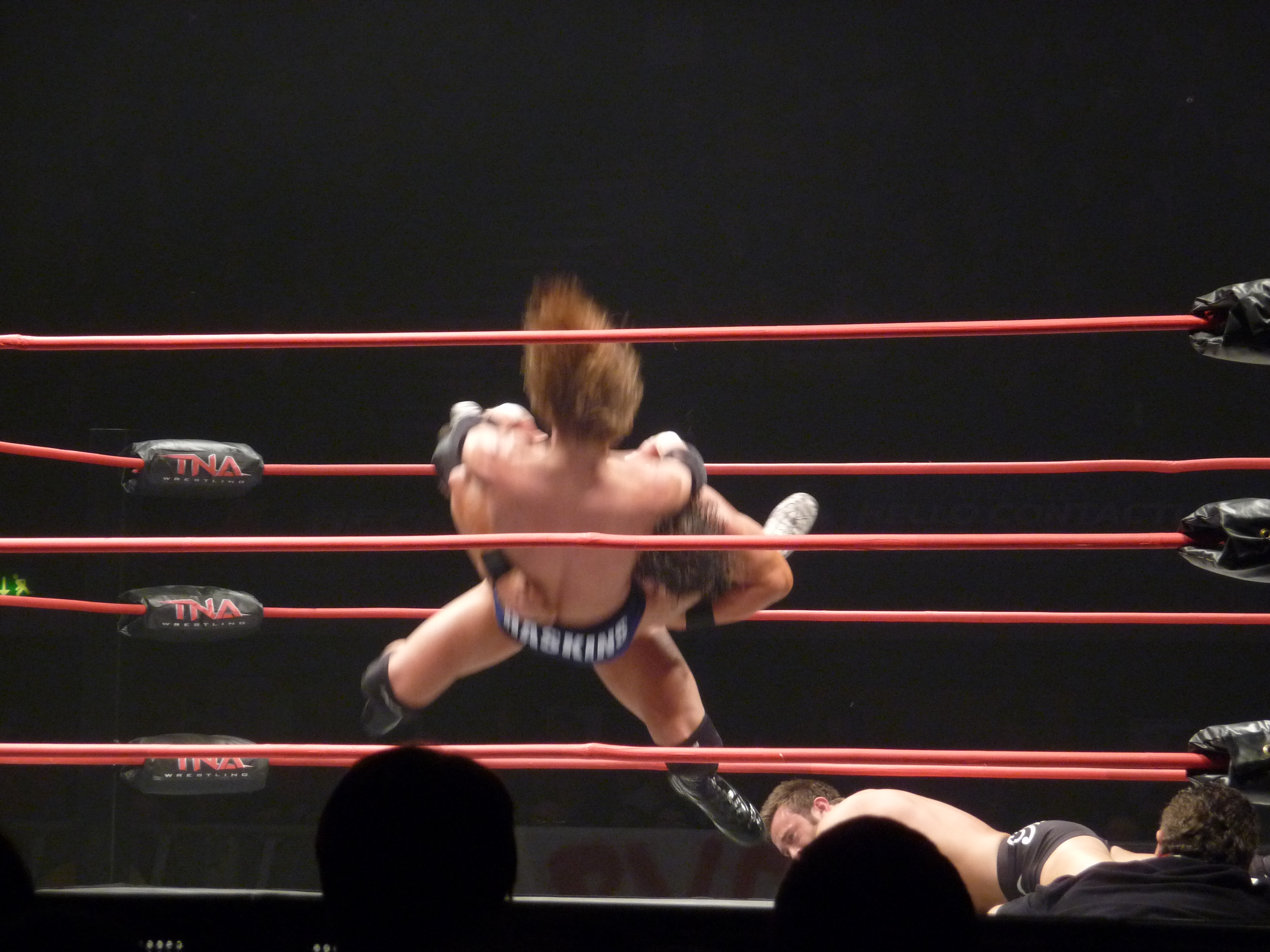 TNA World Tag-team Title match. Rovert Roode performing a spinebsuter on Mark Haskins.